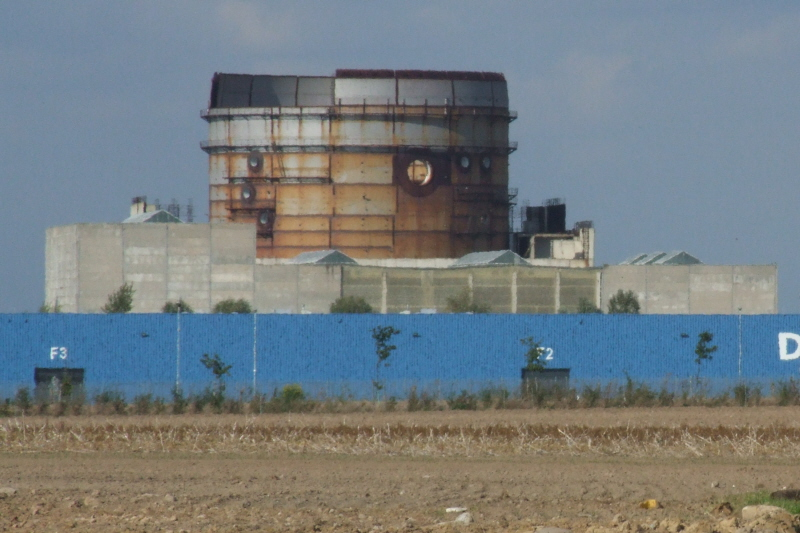 the ruin of the nuclear power station nearde:Arneburg